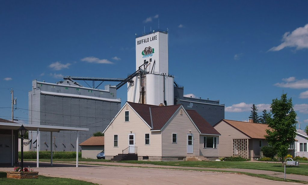 Residences and grain elevator looking northeast from W. Borden Ave, Buffalo Lake, Minnesota, USA.